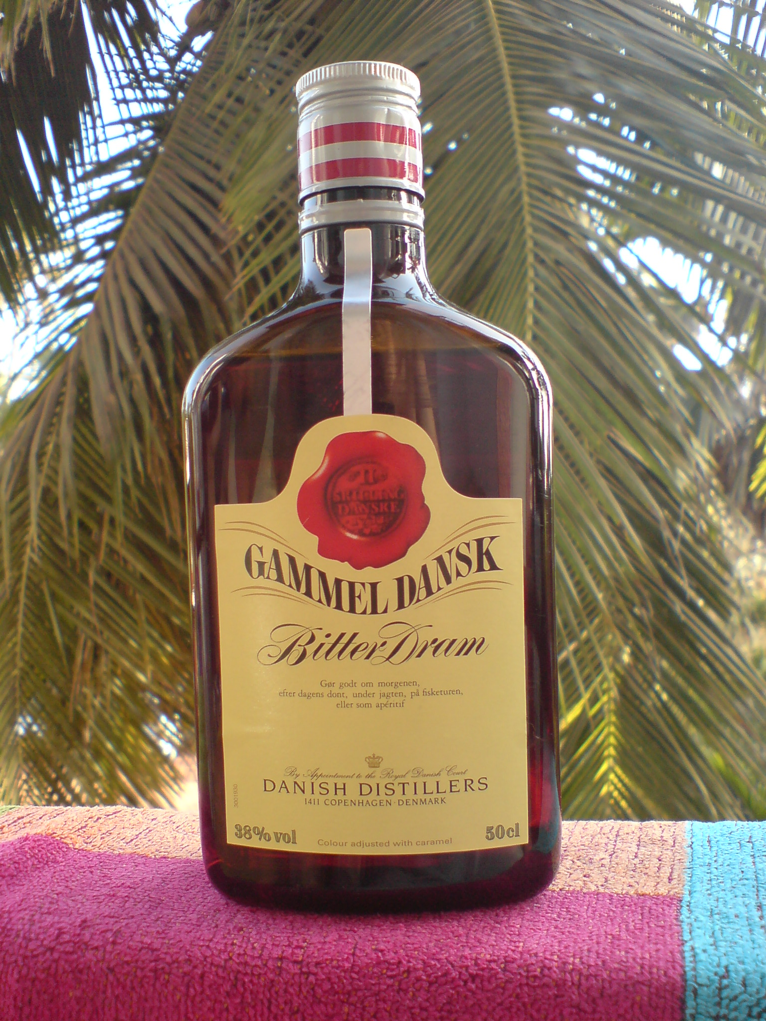 A bottle of the Danish bitter Gammel Dansk, photographed on a balcony in India.